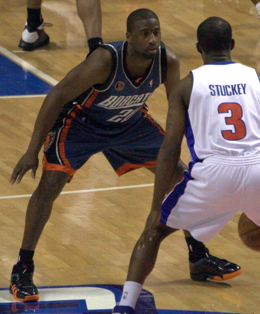 Raymond Felton playing defense against Rodney Stuckey This file has been extracted from another file: Raymond Felton guarding Rodney Stuckey.jpg